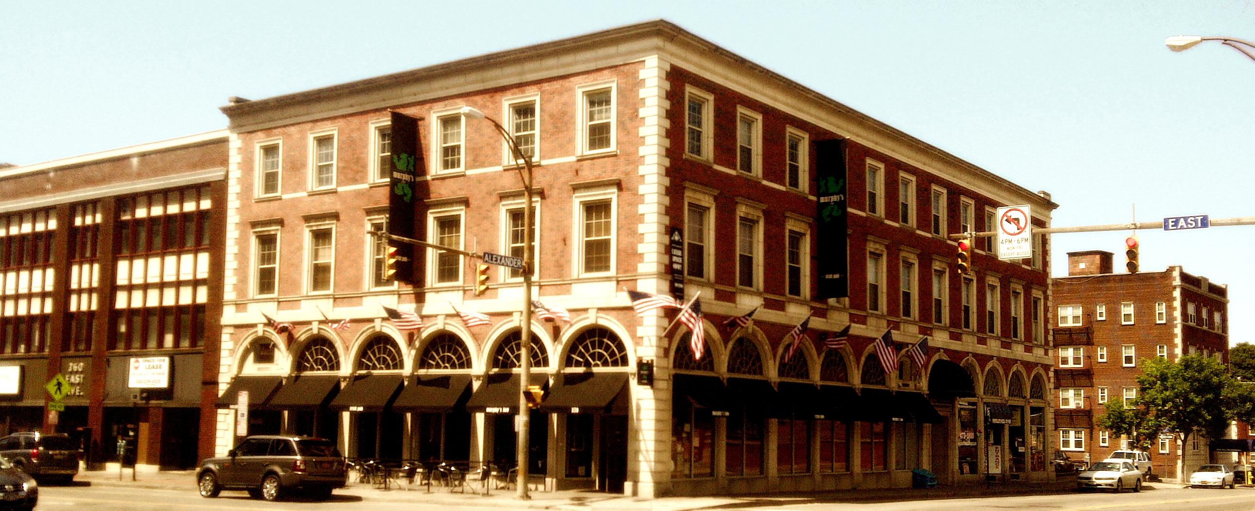 Murphy's law, iconic bar downtown